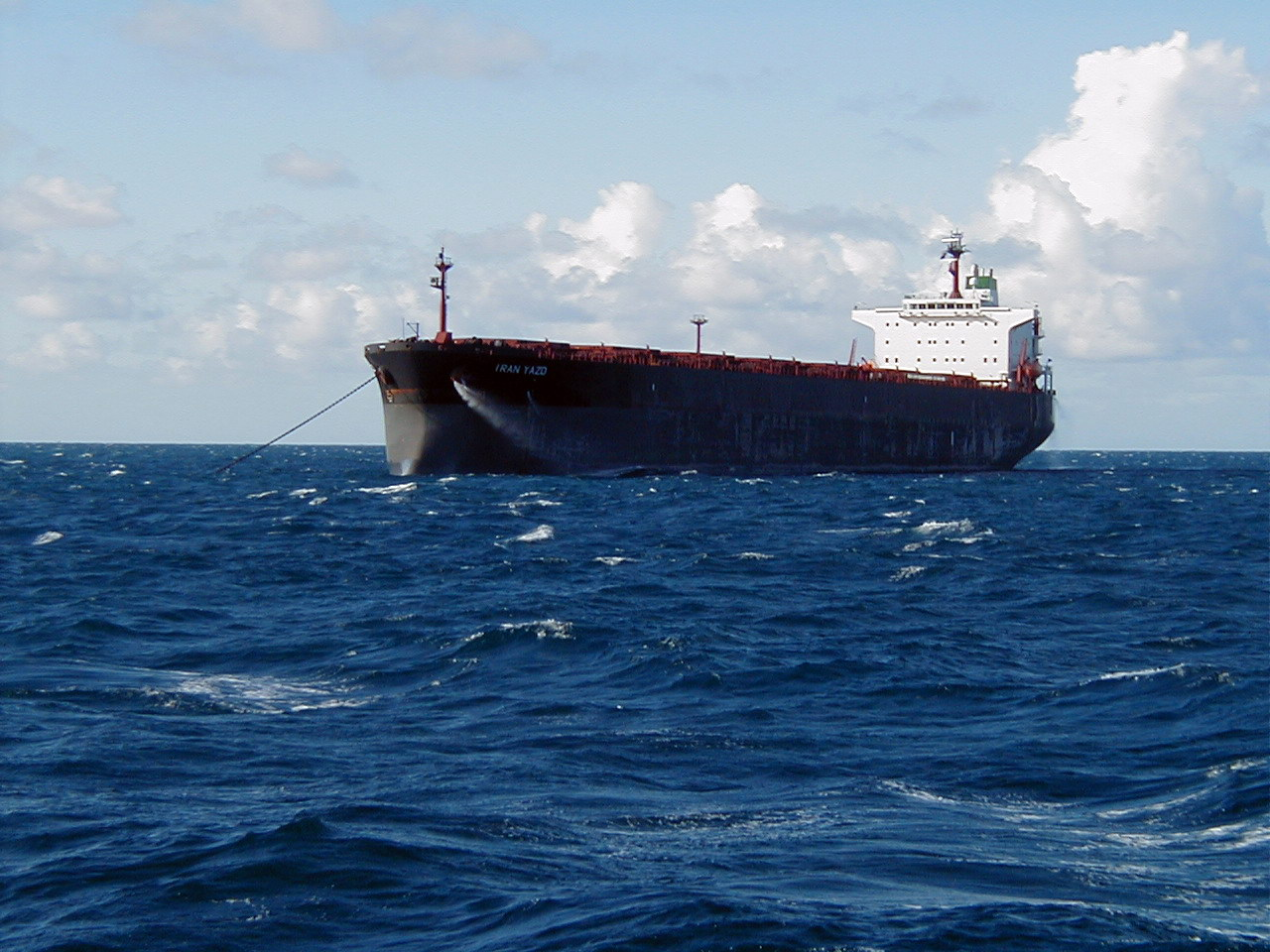 Gage Roads off Fremantle, Western Australia. Bulk carrier Iran Yazd IMO Number: 9213387 MMSI Number: 210417000 Callsign: P3ZD8 Length: 225 m Beam: 32 m